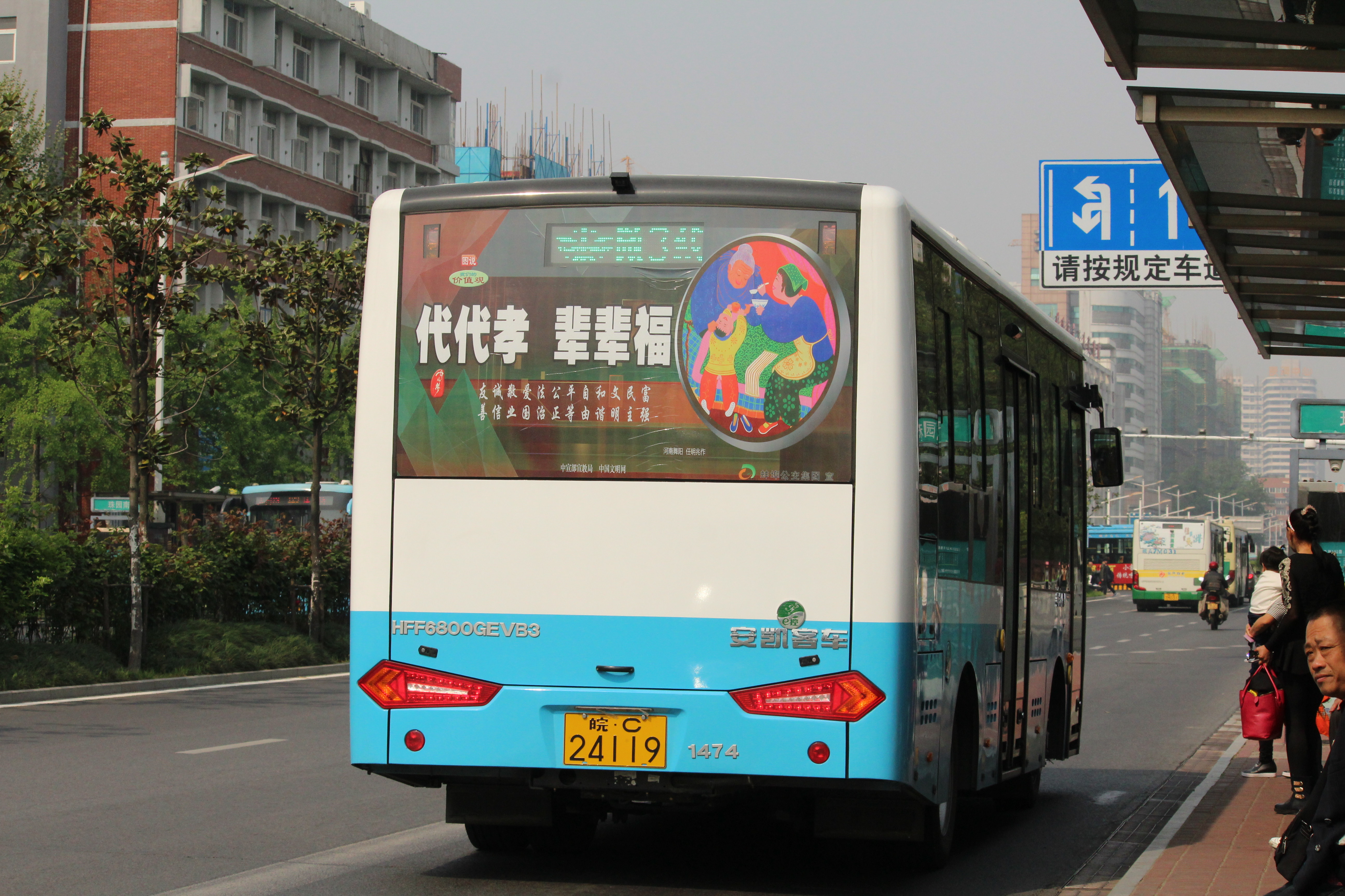 中文（中国大陆）: Bengbu Bus Micro No.3 Line at S.Jinpu Datang Station